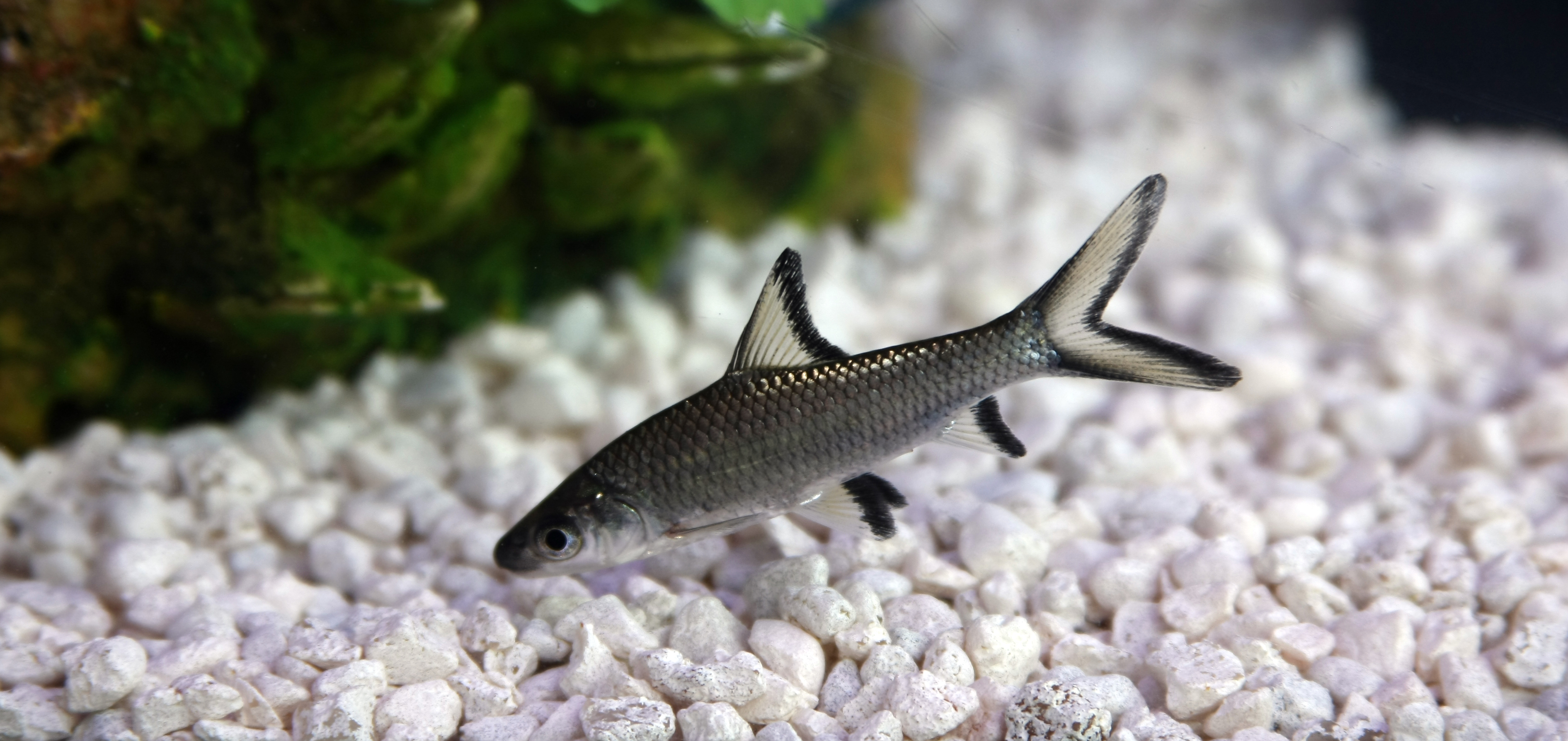 Young bala shark in my freshwater aquarium (1.25" aprox.)